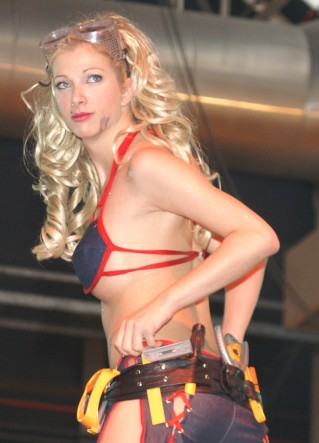 Sonia Baby doing a stage show for IFG at FICEB 2006